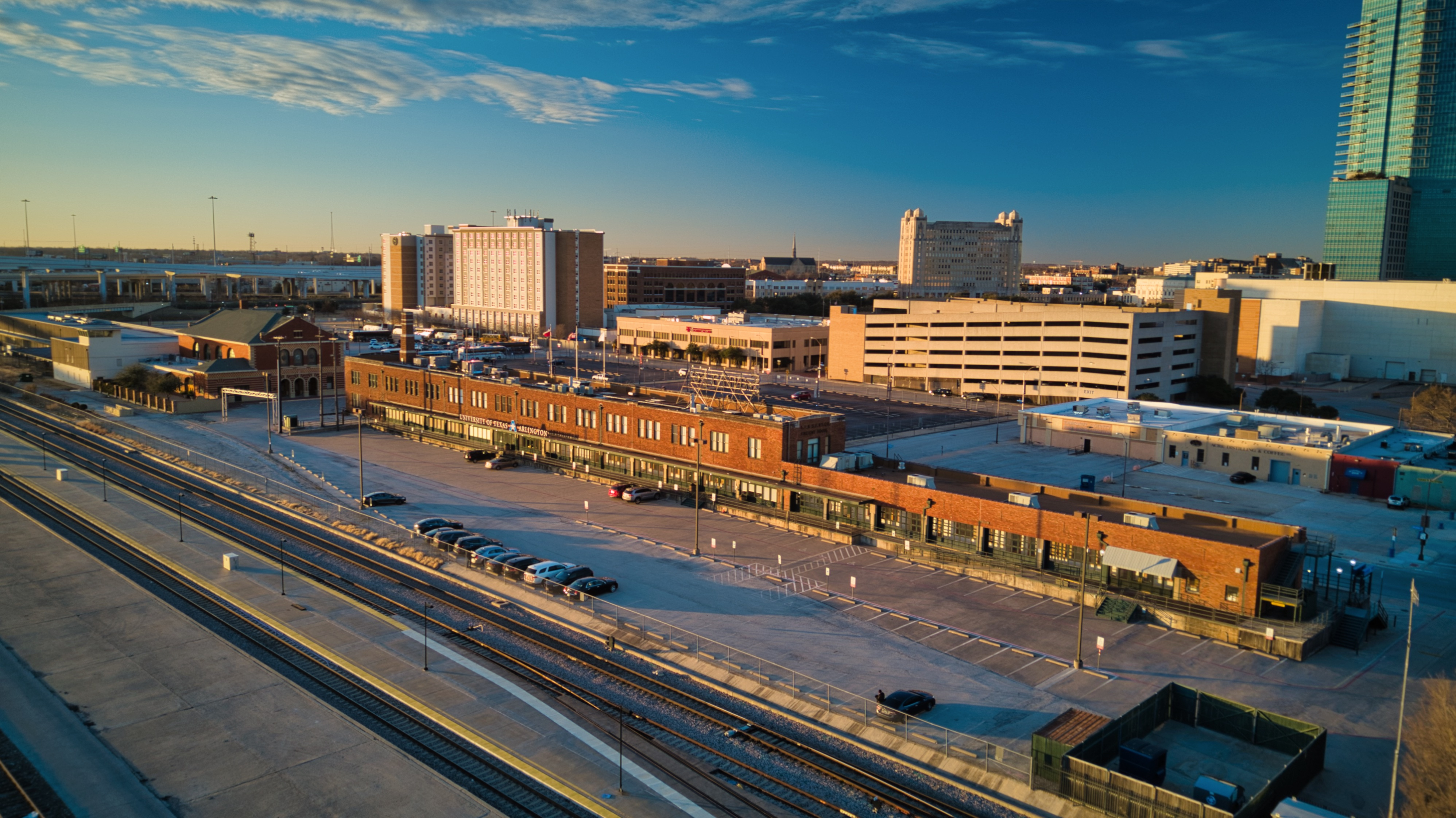 View of UTA Fort Worth looking southwest with Ashton Depot visible on the left of the frame